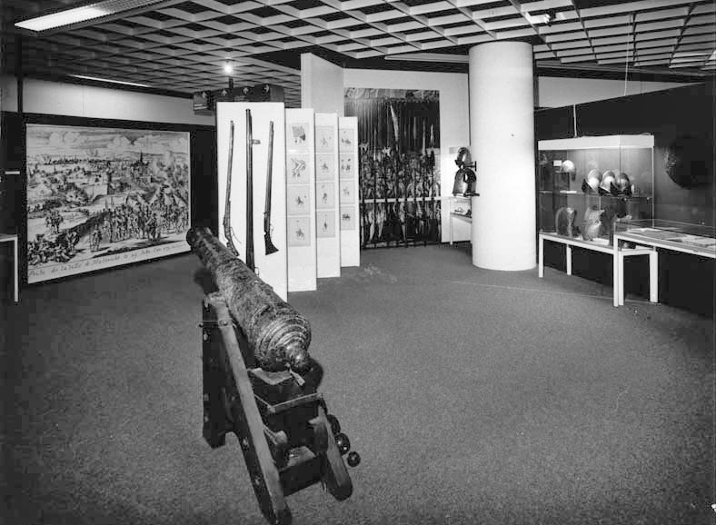 View of an exhibition commemorating the 400th anniversary of Siege of Maastricht (1579) in Bonnefantenmuseum (location Entre Deux) in Maastricht, Netherlands.